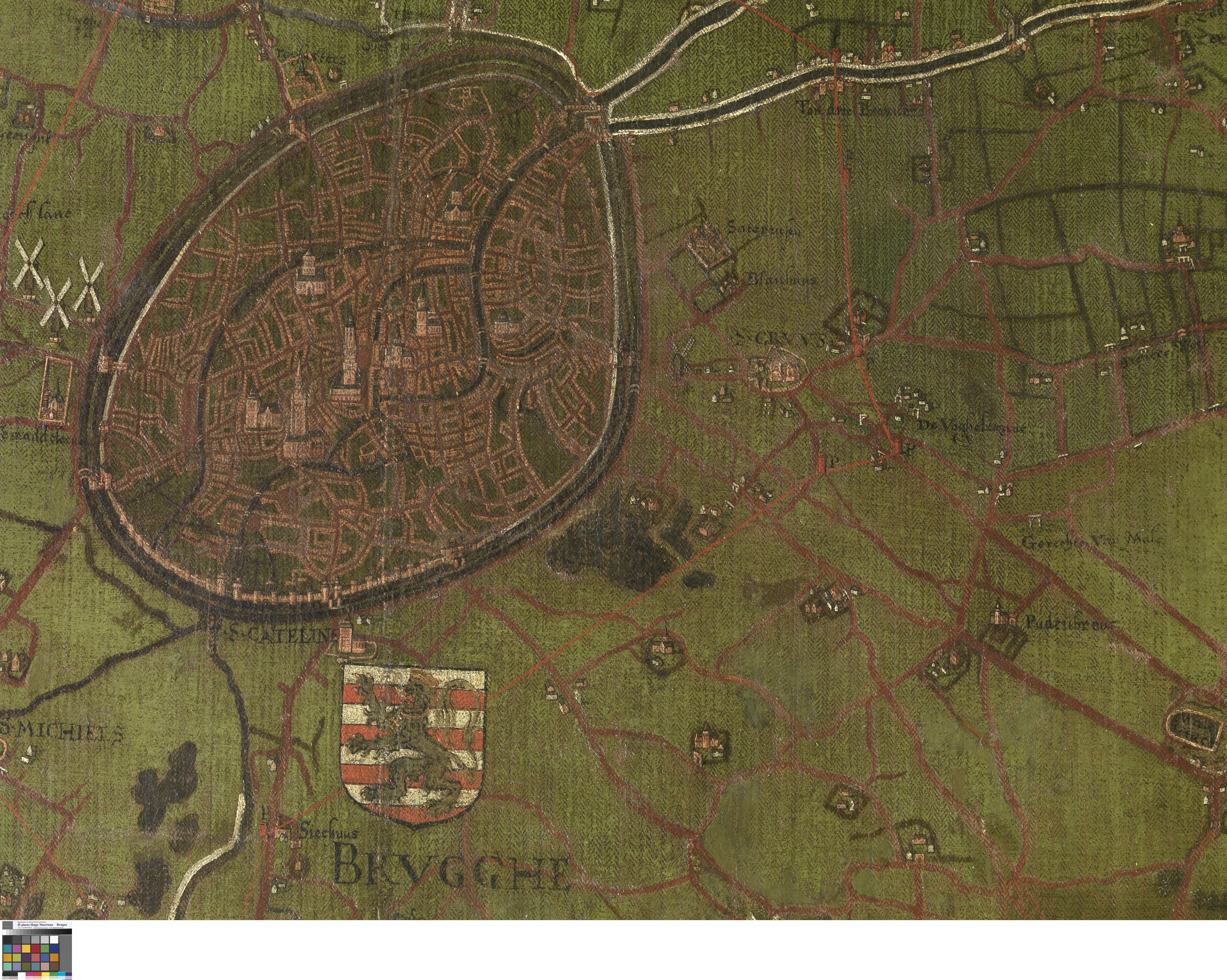 Old map of Kaart van het Brugse vrije, detail of bruges